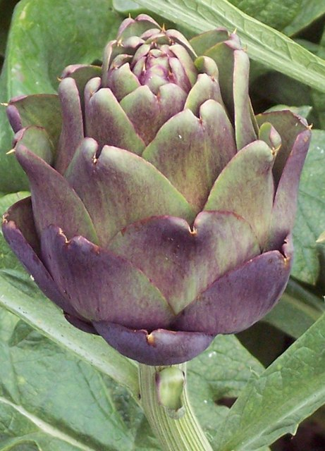 Globe Artichoke (Cynara cardunculus) Globe Artichoke is a robust perennial that grows up to two metres in height. These days they tend to be cultivated without spines. They flower from July to August with blue-violet tubular blossoms, up to 15cm wide. No wild relative is known.